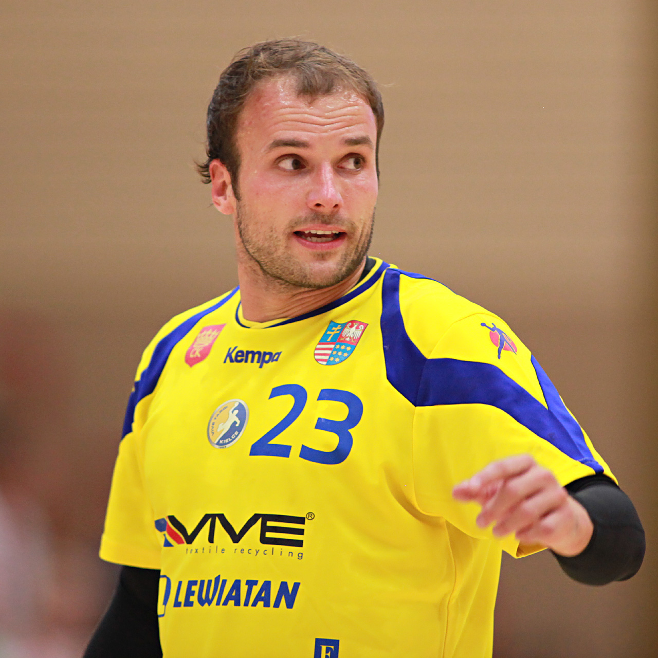 Uroš Zorman, on August 17th, 2012 in Ehingen (Germany), during the Sparkassen Cup (formerly known as Schlecker Cup).